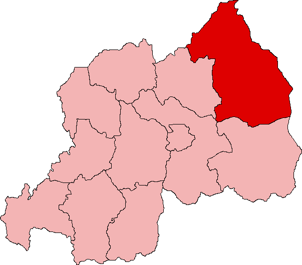 Umutara Province Adapted from File:Rwanda Butare.png which was made by User:Acntx